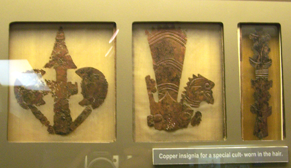 S.E.C.C. headresses executed in repoussé copper plate from the Etowah site.